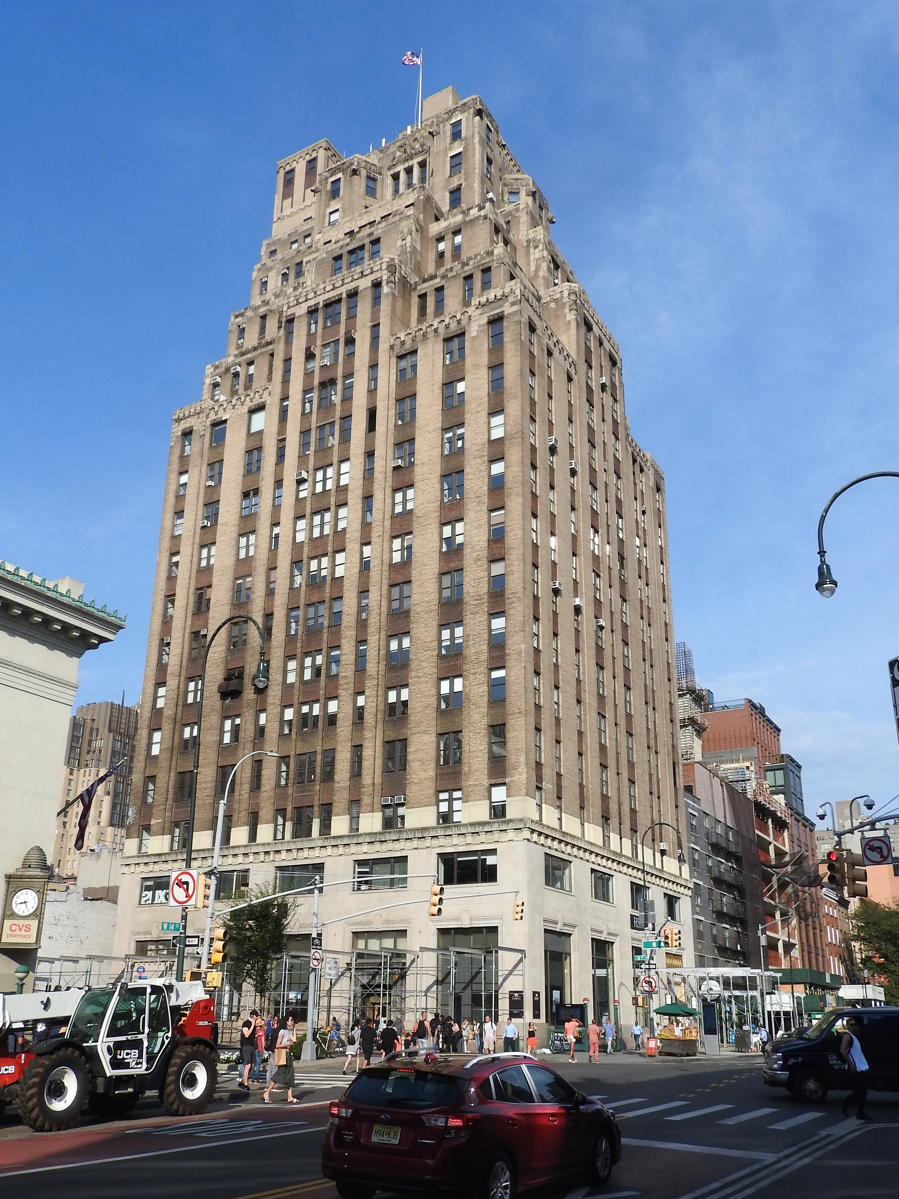 Looking east across 14th & 8th on a sunny late afternoon